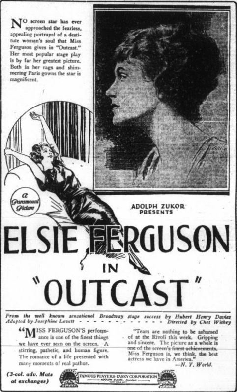 Advertisement for the American drama film Outcast (1922) with Elsie Ferguson, on page 35 of the December 8, 1922 Variety.